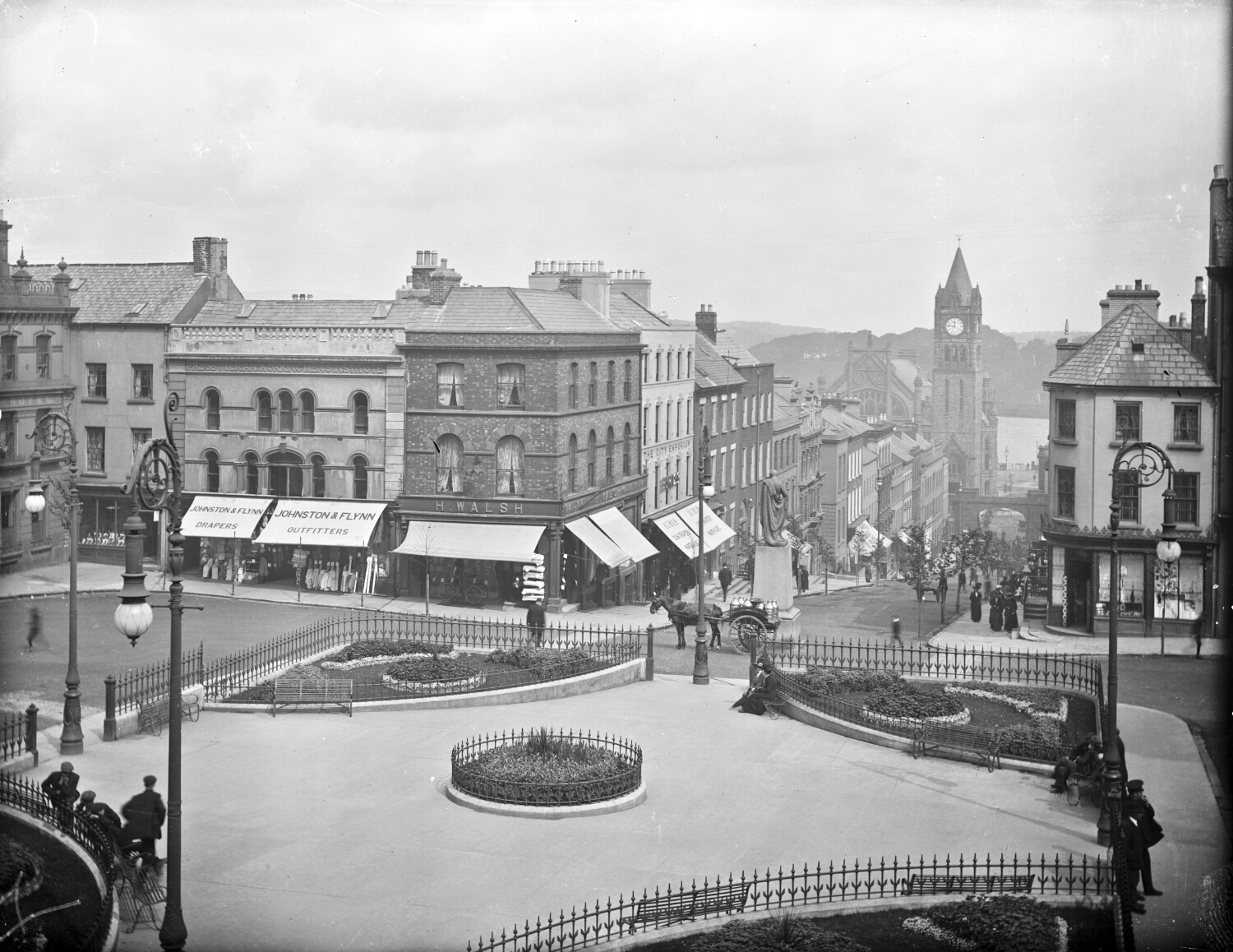 Photo of the Diamond in Londonderry ca. 1865-1914. Picture part of The Lawrence Photograph Collection of National Library of Ireland. NLI Ref: L_ROY_11263